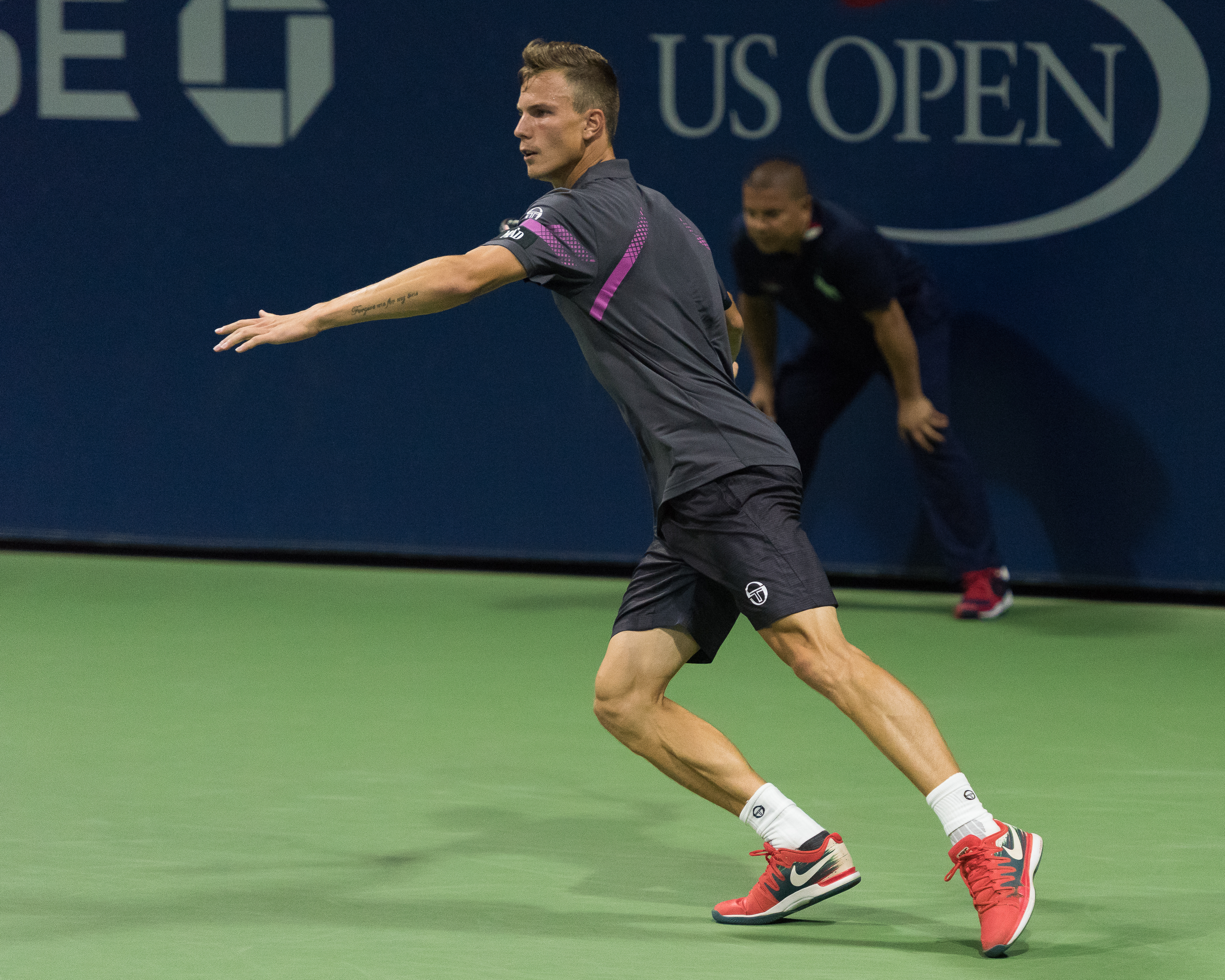 August 27, 2015 Court 4 Flushing, NY